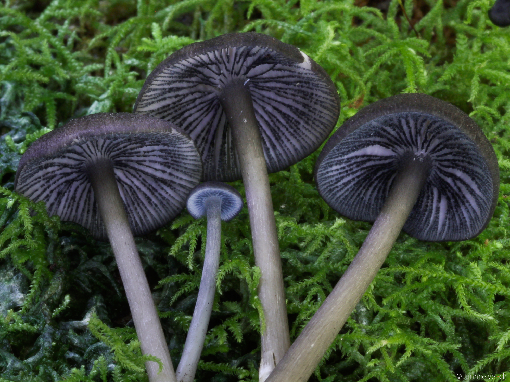 Entoloma serrulatum (Fr.) Hes. Image location: Lovell, Oxford Co, Maine, USA Habitat: among moss in a wash out, creekside. Mixed woods. Recognized by sight: sensu NA For more information about this, see the observation page at Mushroom Observer.